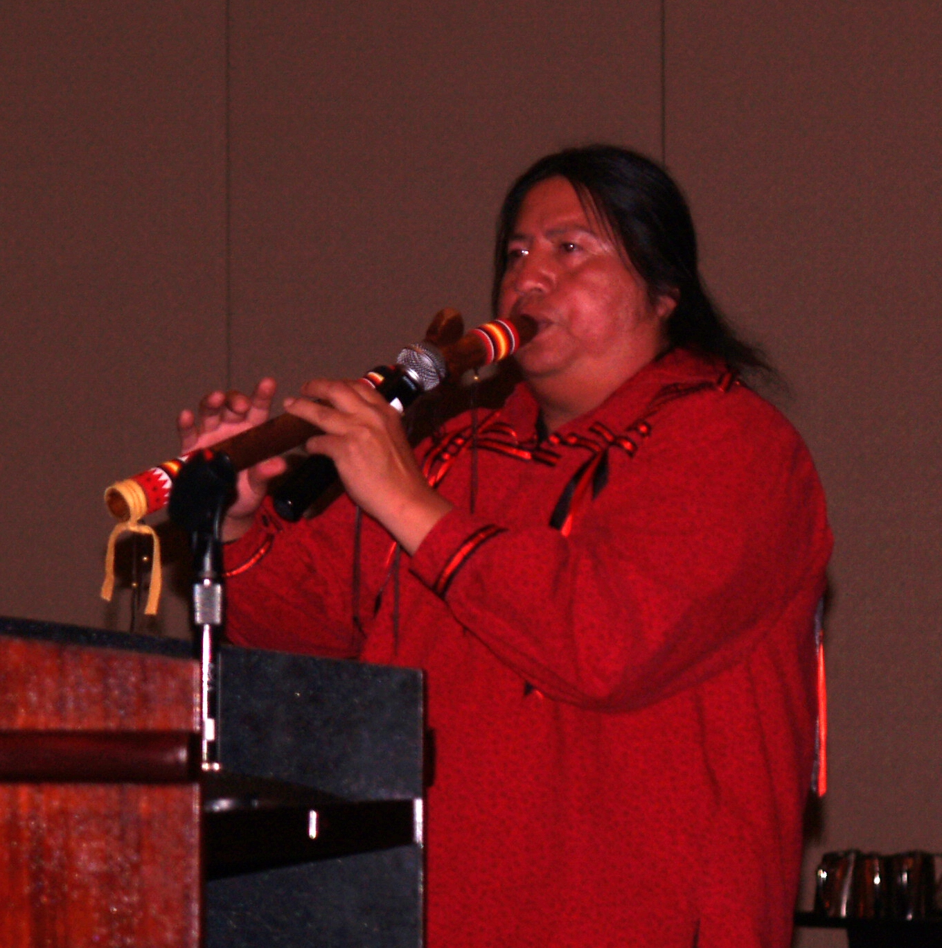 A photo of Tommy Wildcat playing the flute at the Cherokee Leaders Conference in Catoosa, Oklahoma. Attribution to: Phil Konstantin